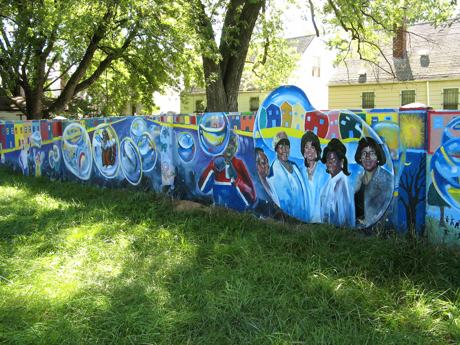 View of the Birwood Wall from Alfonso Wells Playground, Detroit, MI, USA